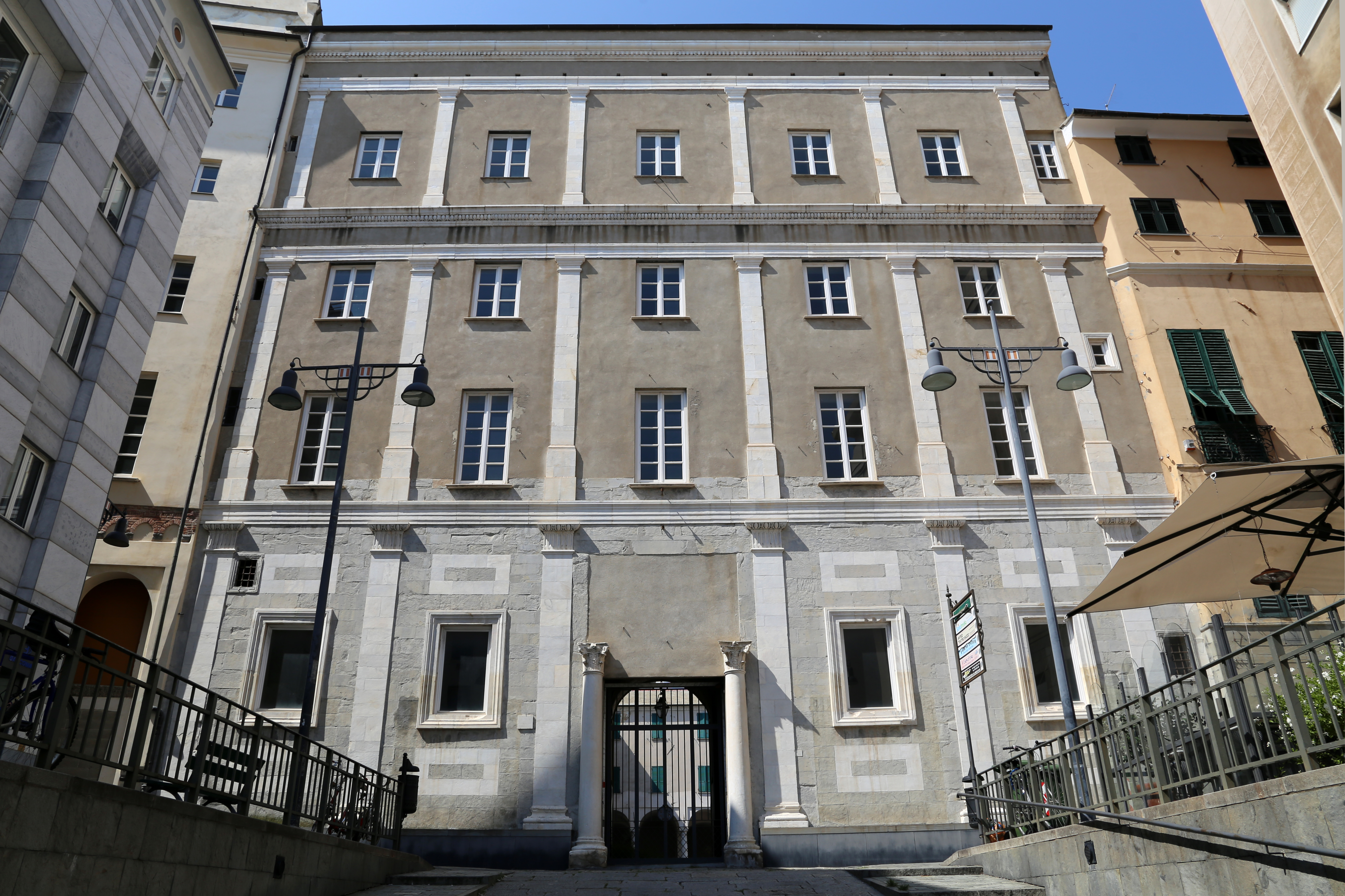 Savona